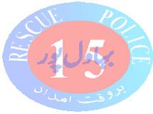 Rescue 15 Police Bwp